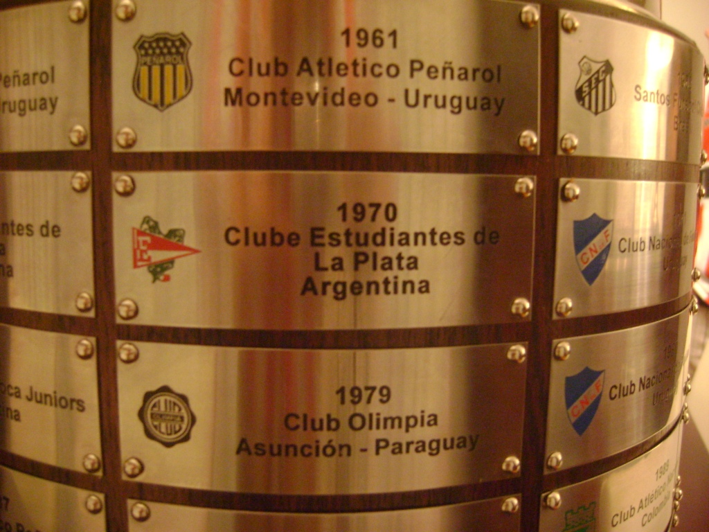 Metal sheets naming some winning teams of the Copa Libertadores de América.